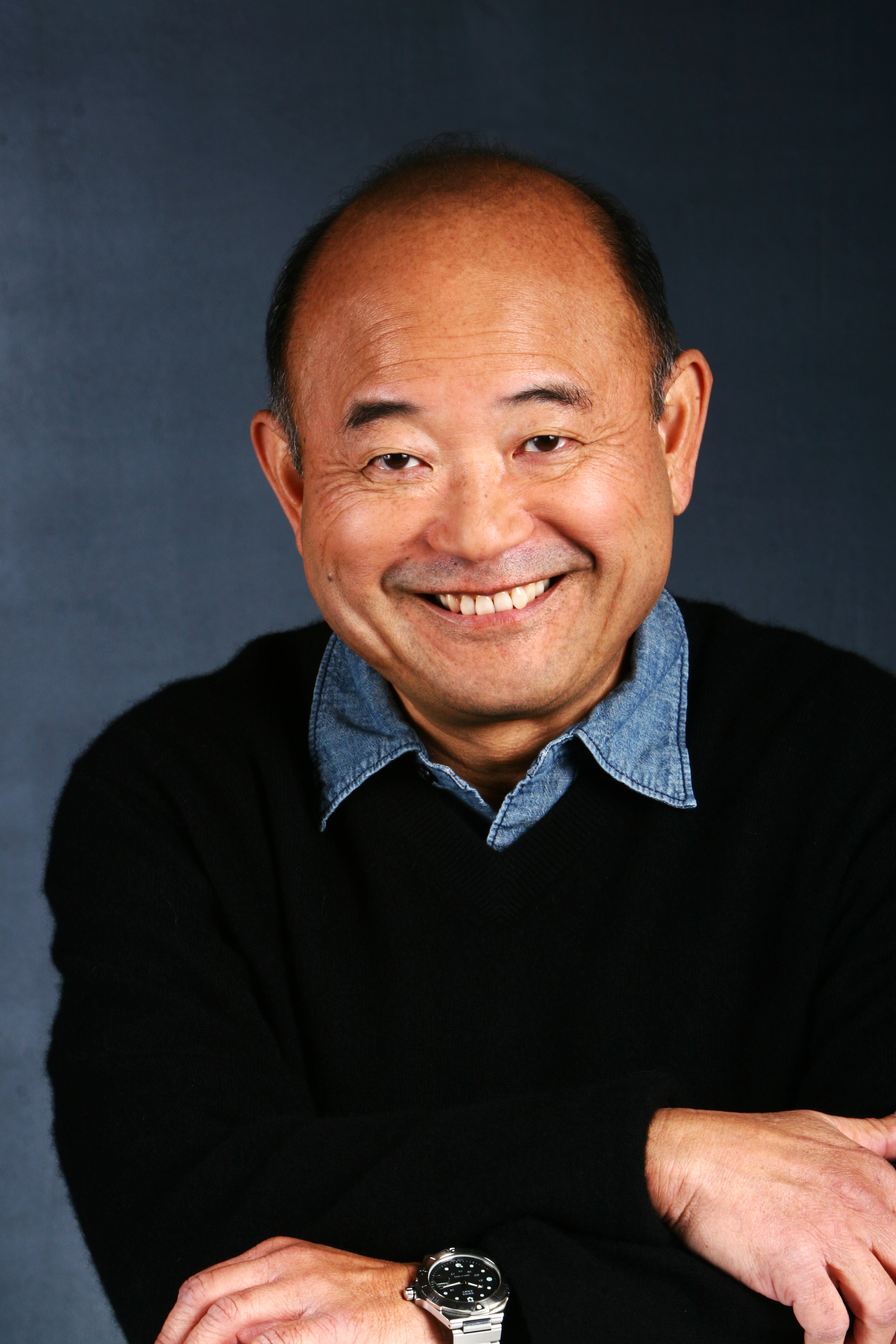 Clyde Kusatsu, Japanese American actor